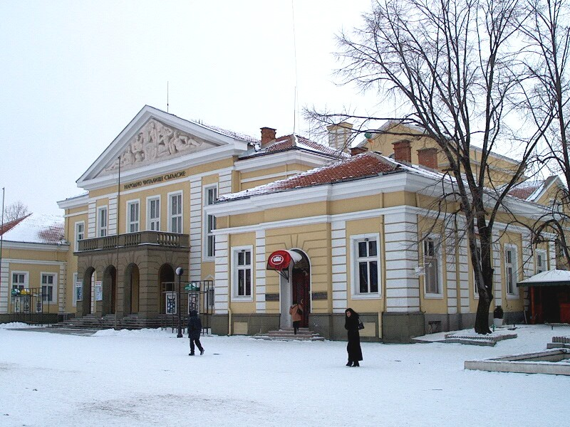 Yambol Theatre by winter, Yambol, Bulgaria